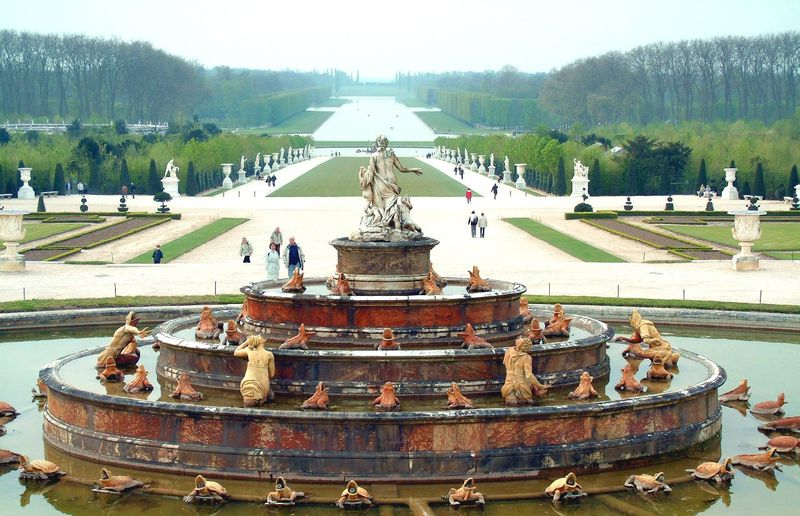 The Latona Fountain, looking west, in the gardens of the Château of Versailles